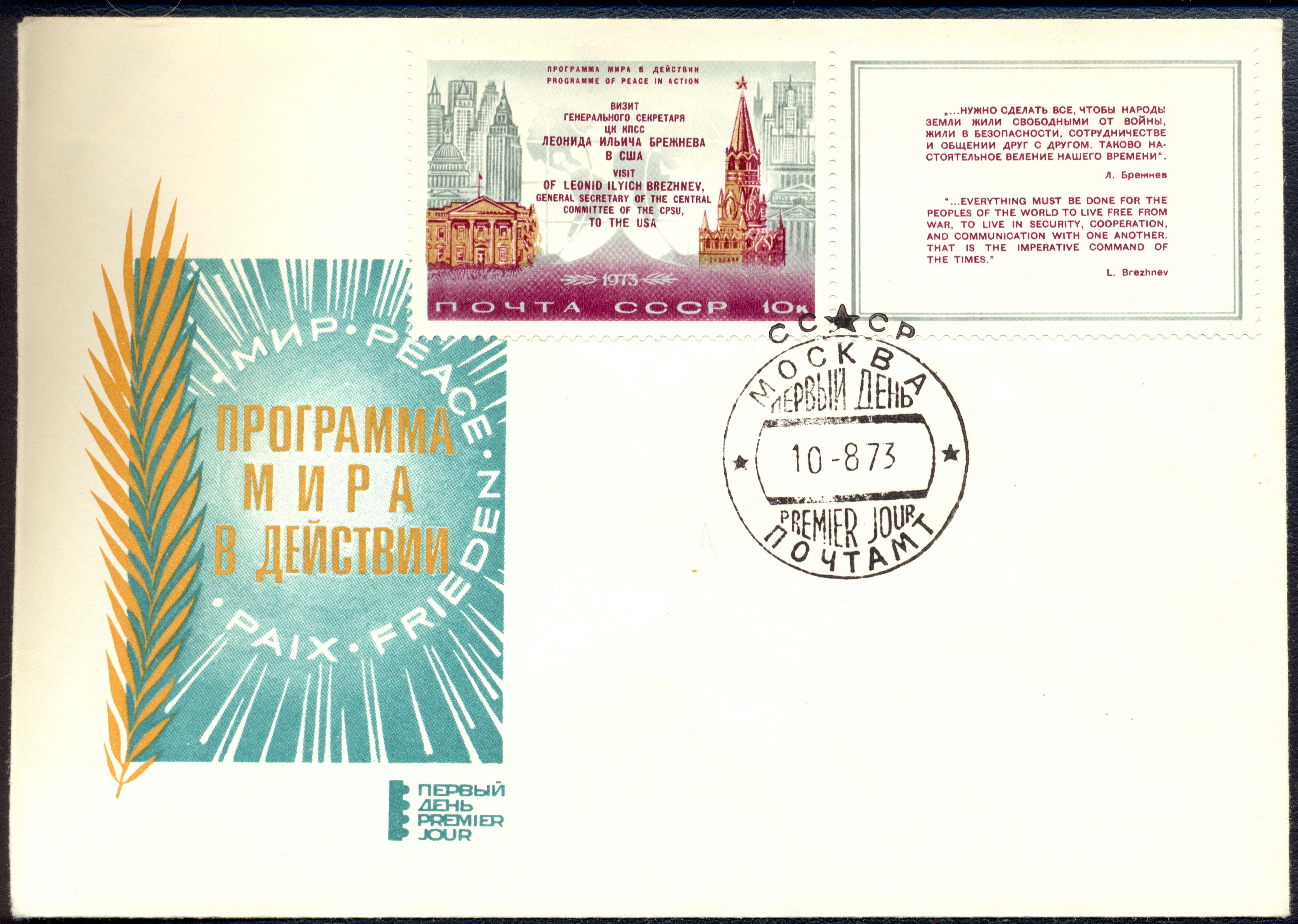 USSR First Day Cover issued on August 10, 1973 to mark Leonid Brezhnev's visit to the USA (Programme of peace in action).